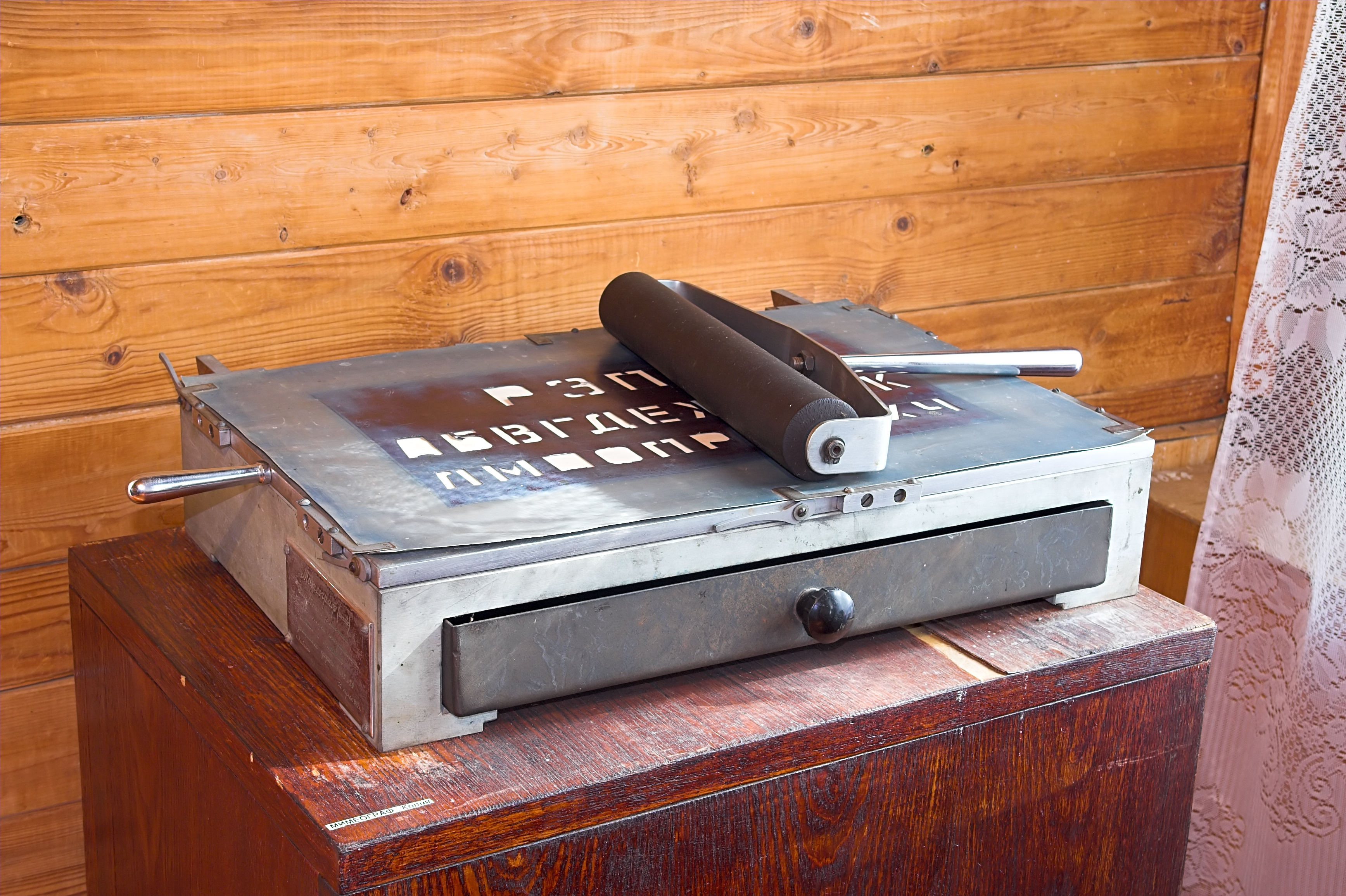 Mimeograph of a hand-cranked style